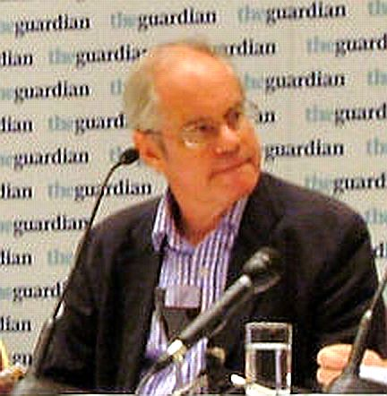 Simon Hoggart at The Guardian fringe meeting, Liberal Democrat Conference, Brighton, autumn 2006